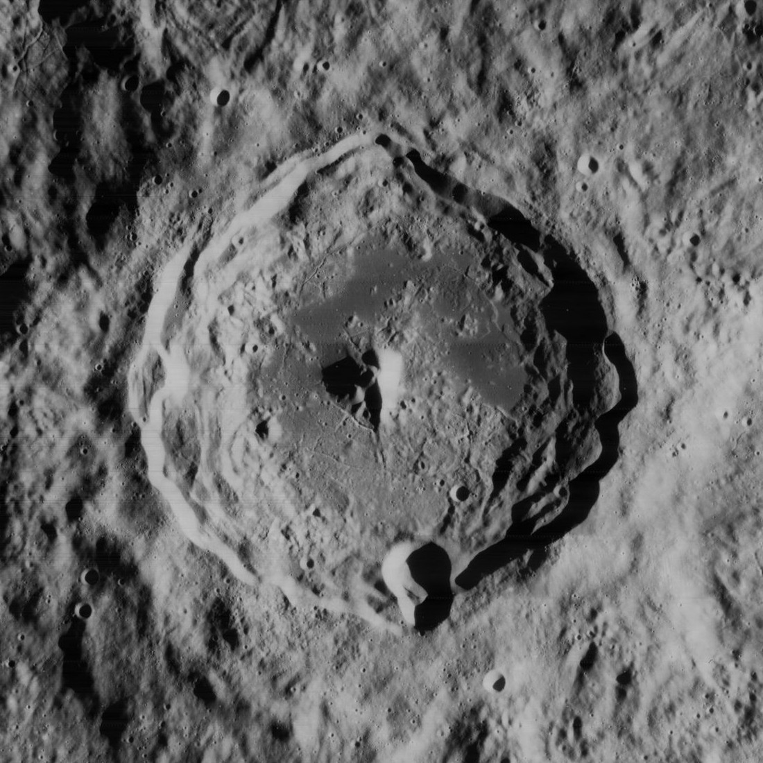 Schlüter, on the moon, northeast of Mare Orientale.